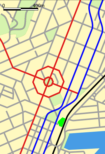 Map of central Dunedin, New Zealand. The black line is the railway, the blue lines are the north/south one-way section of State Highway 1. The area highlighted in bright green is the Dunedin Chinese Garden.